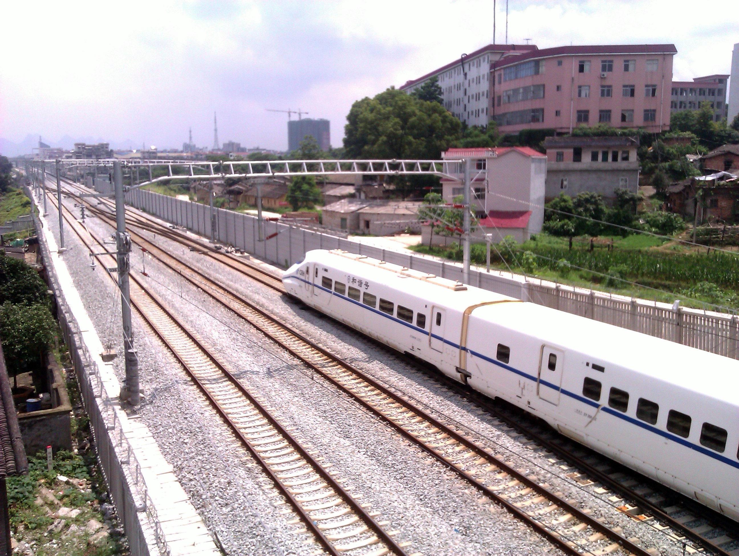 The CRH2C-061C at Lingchuan County, north of Guilin, in Guangxi.